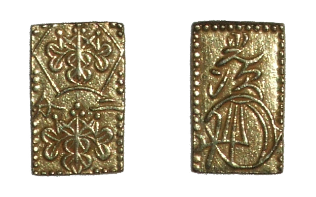 Ansei-2buban